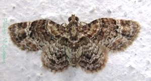 Chloroclystis derasata moth (Bastelberger, 1905) Geometridae Picture was taken in Réunion